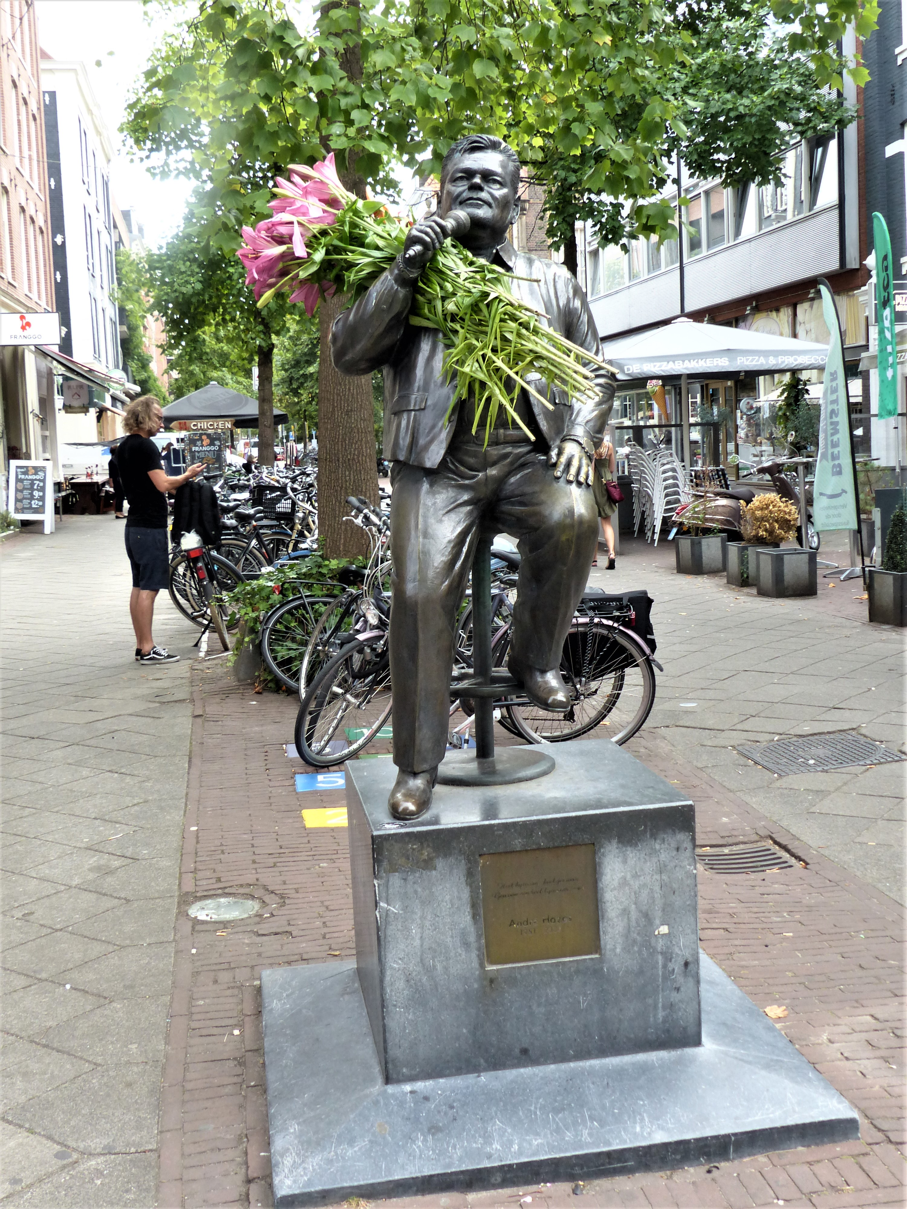 André Hazes, Amsterdam on the 14th of August, 2018.